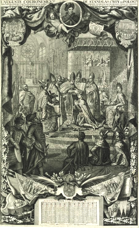 Coronation of Stanislas I Leszczyński in 1705